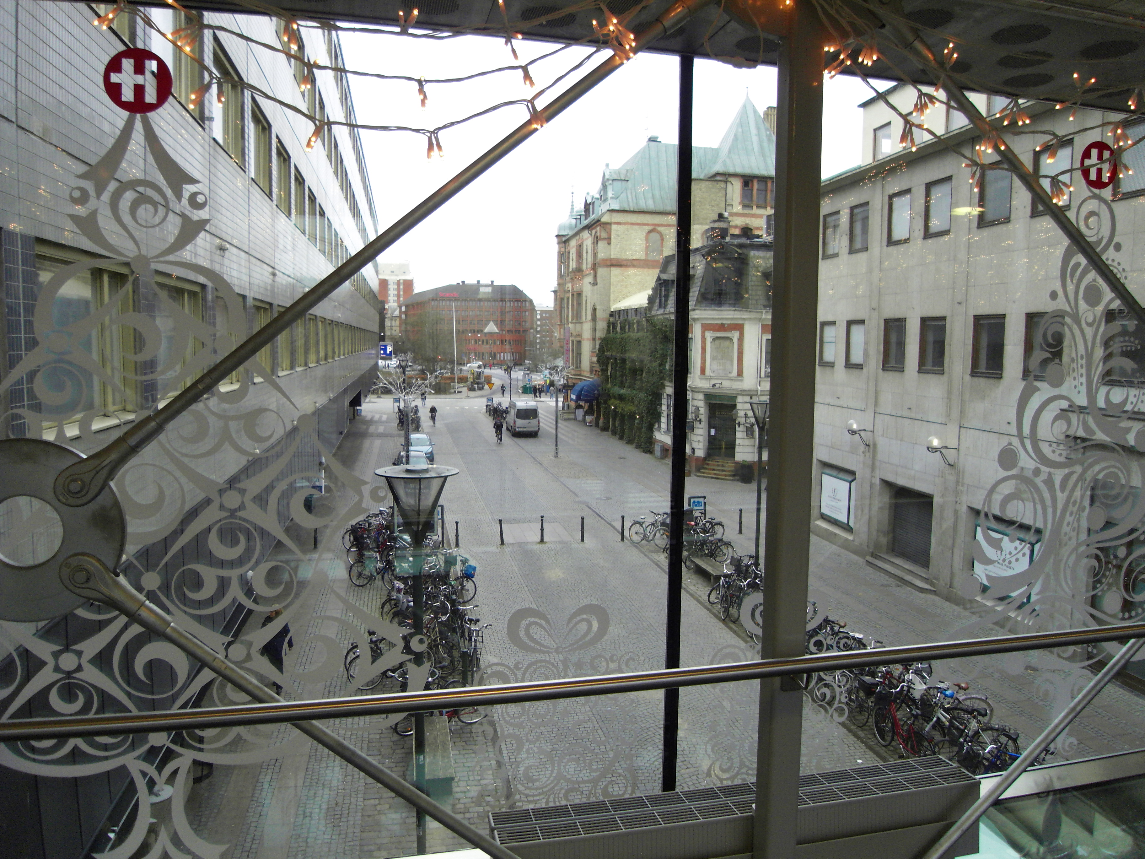 A view over the area outside from the bridge over the street Malmborgsgatan and the only one that connects the two buildings of Hansacompagniet, a shopping mall in the city of Malmo. This bridge has windows on its sides where you can get views over the area outside. The picture is photographed 29 November 2013.